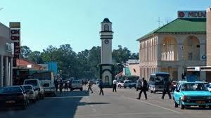 Memorial Boggies clock in Gweru